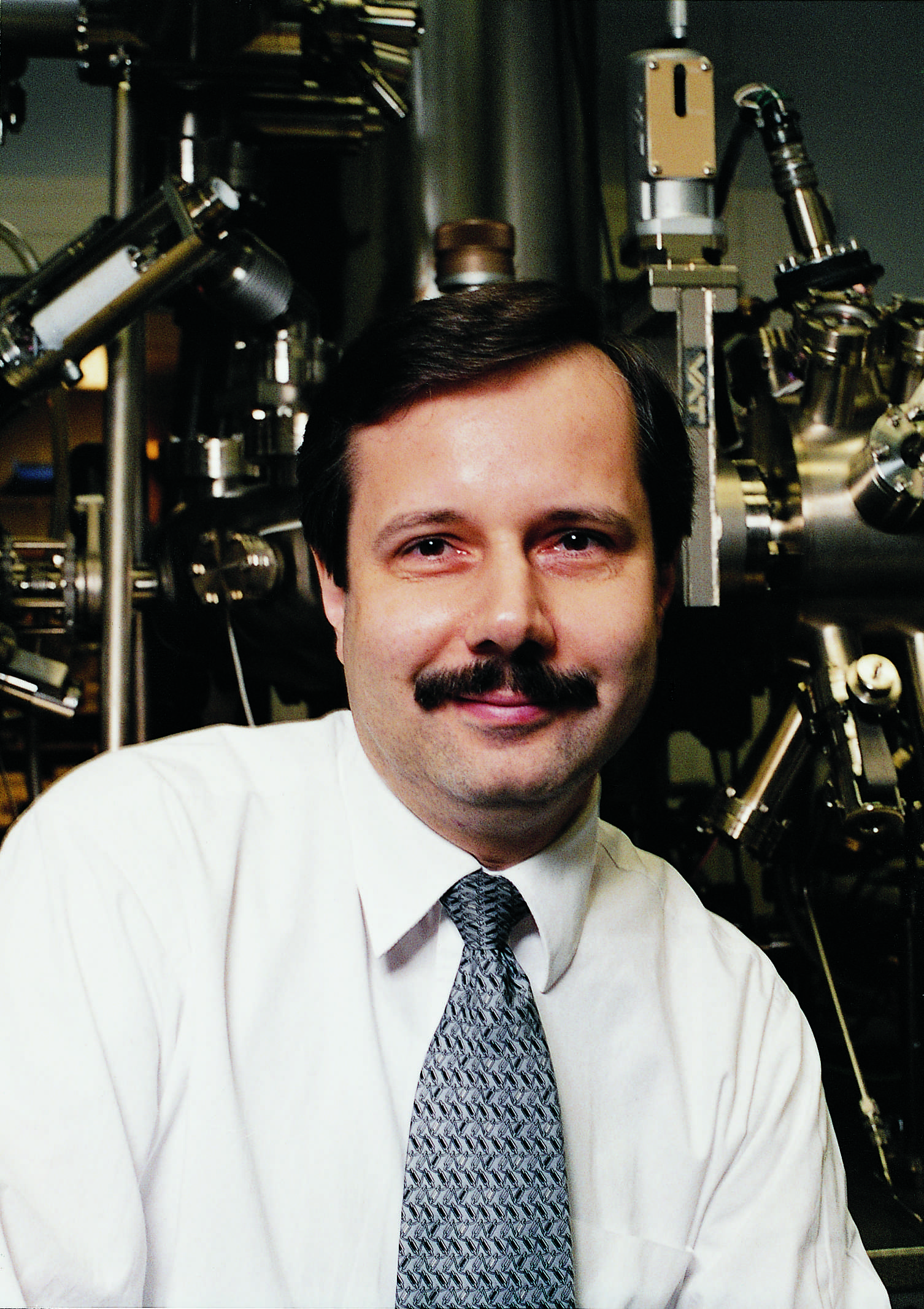 Roland Wiesendanger in front of the scanning tunneling microscope NanoLab II (2003)